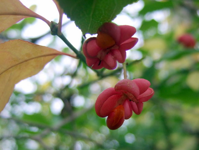 Spindle berries in Leigh Woods The woods are noted as a habitat for the increasingly rare native spindle tree with its exotically shaped and coloured berries of which the seeds are poisonous and were once used as a verminifuge against lice, hence 'louse berry'. The spindle, Euonymus europaeus, has many other local names in Britain, while its generic name comes from the Greek 'having a good name' meaning fortunate.